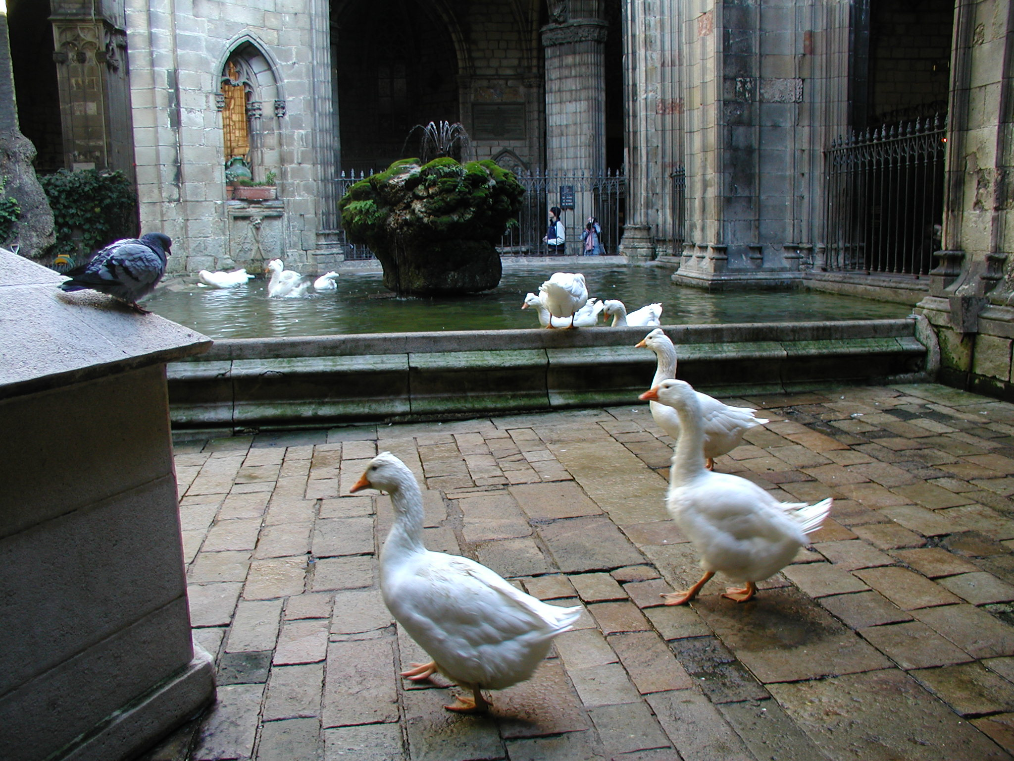 (c) Nathan Badera, taken in Barcelona, Spain.